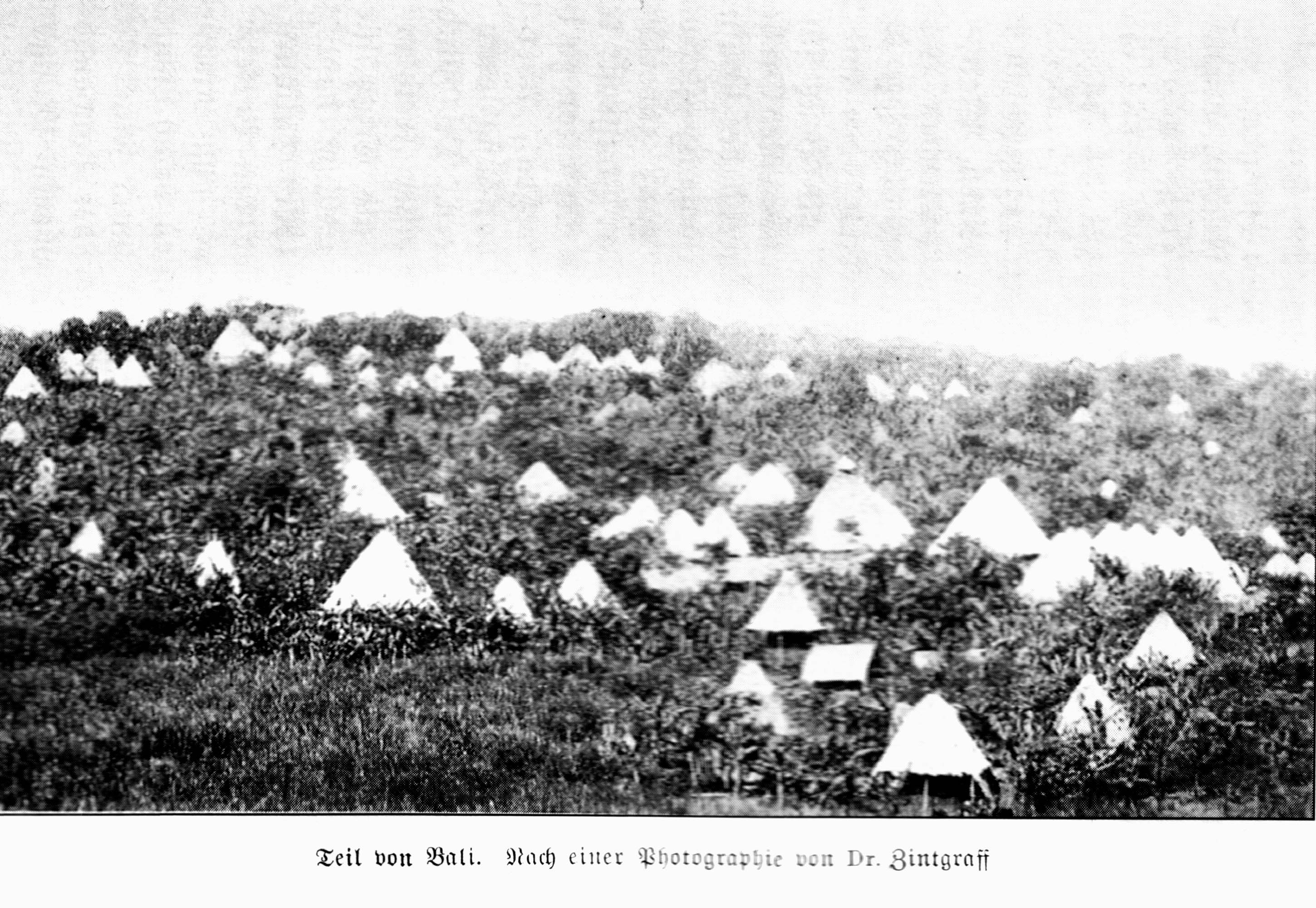 Part of Bali (Village) in Cameroon